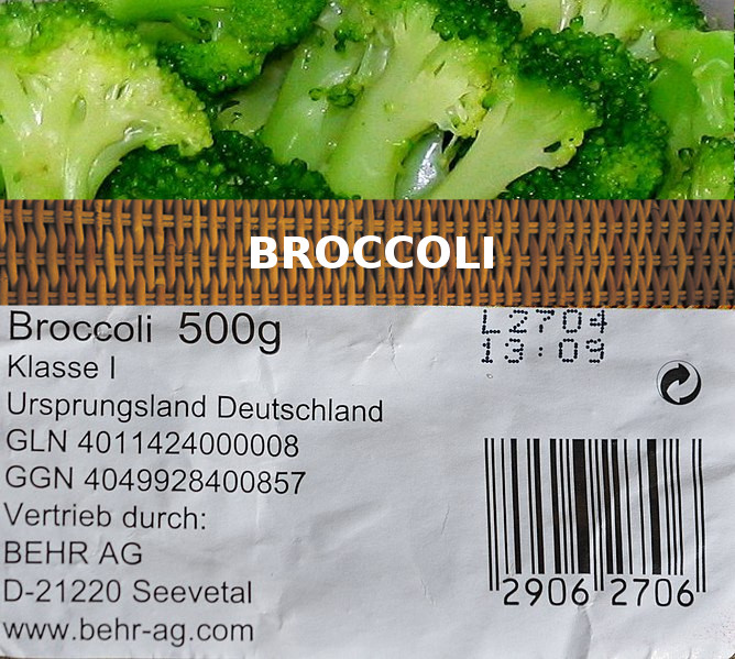 German food label on broccoli, includes a GGN-Number (Global-Gap-Number, see GlobalGAP)